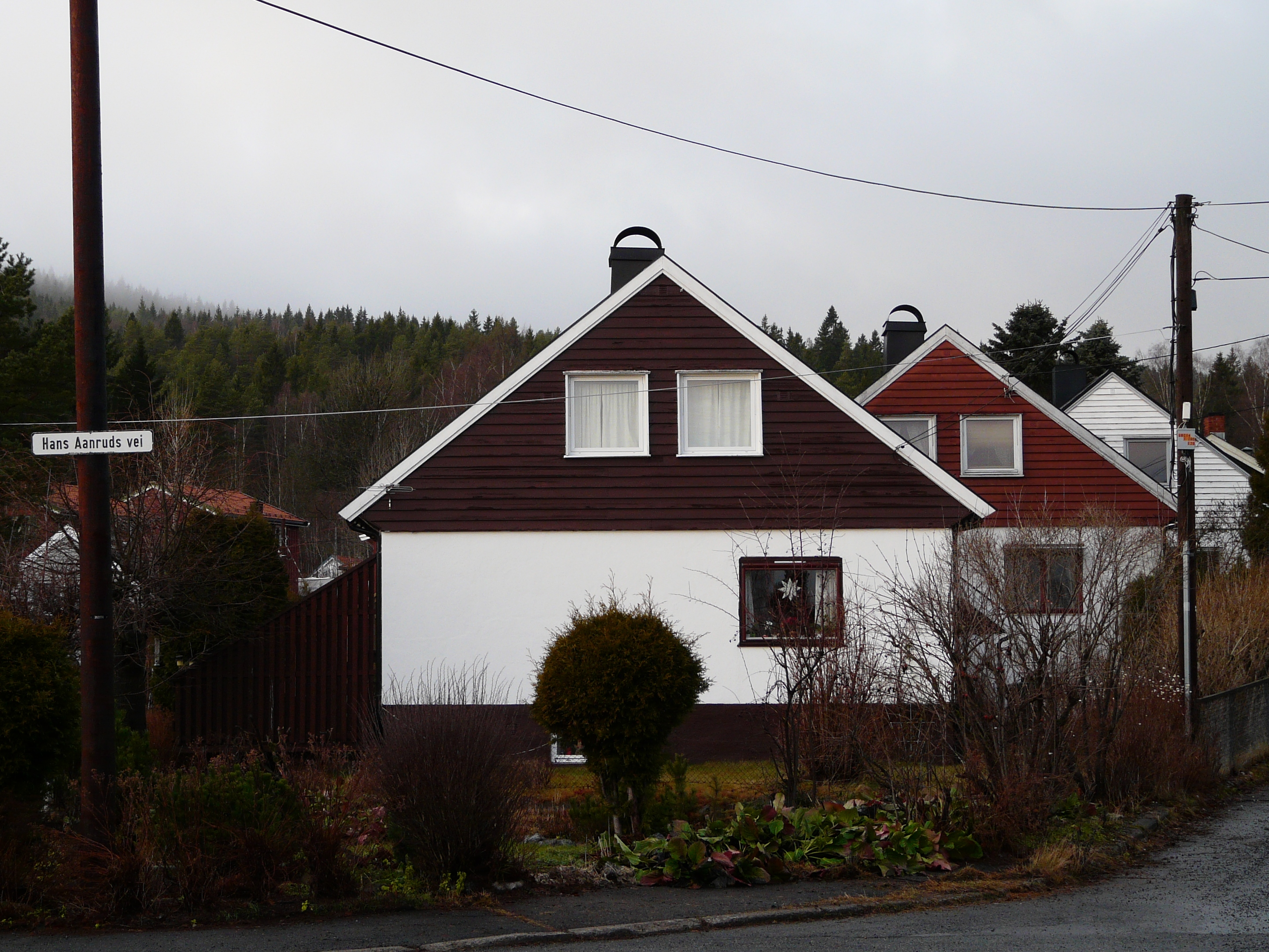 Sandås, Groruddalen, Oslo